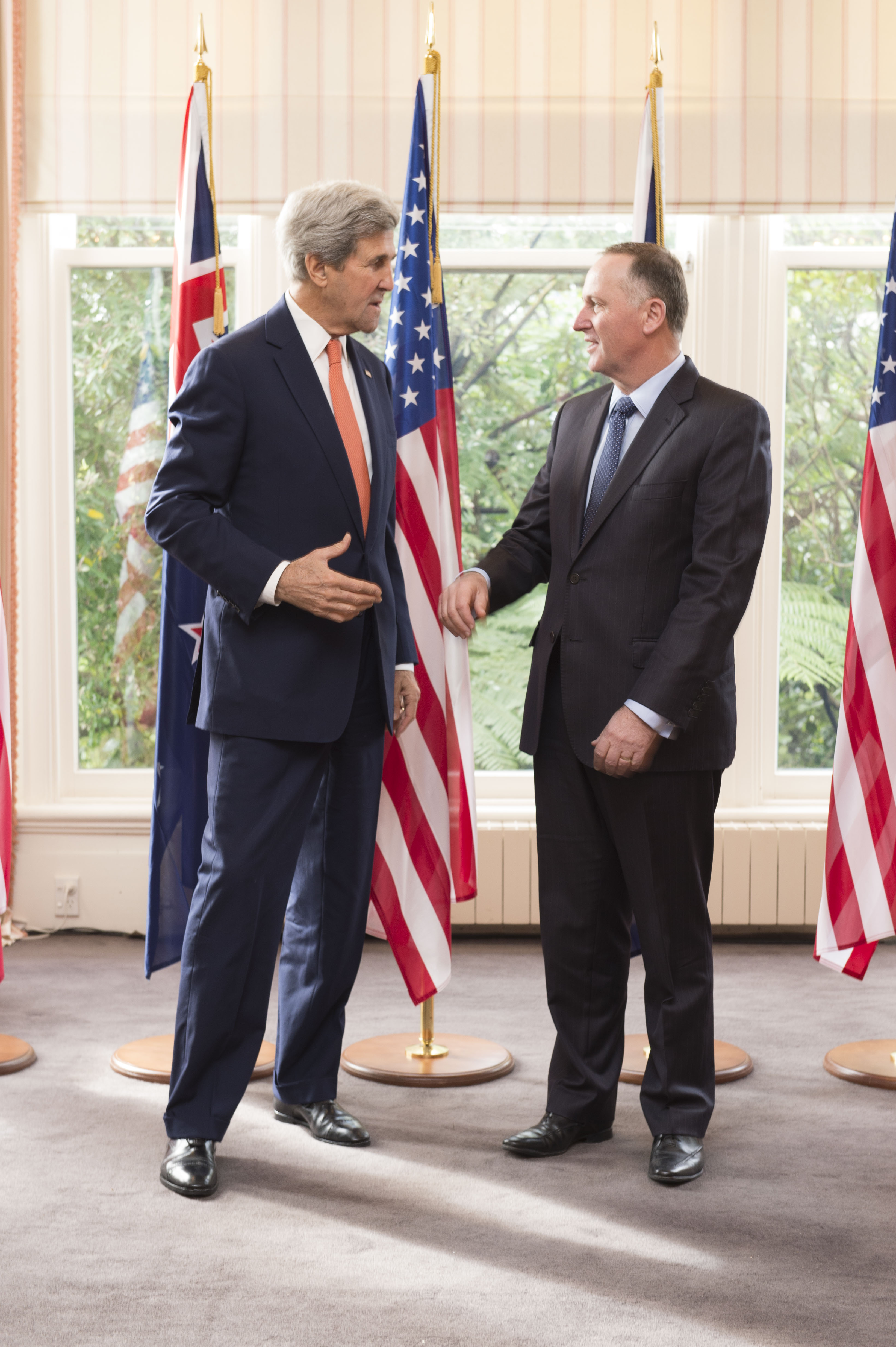 Secretary of State John Kerry visit to New Zealand, November 9 - 13, 2016